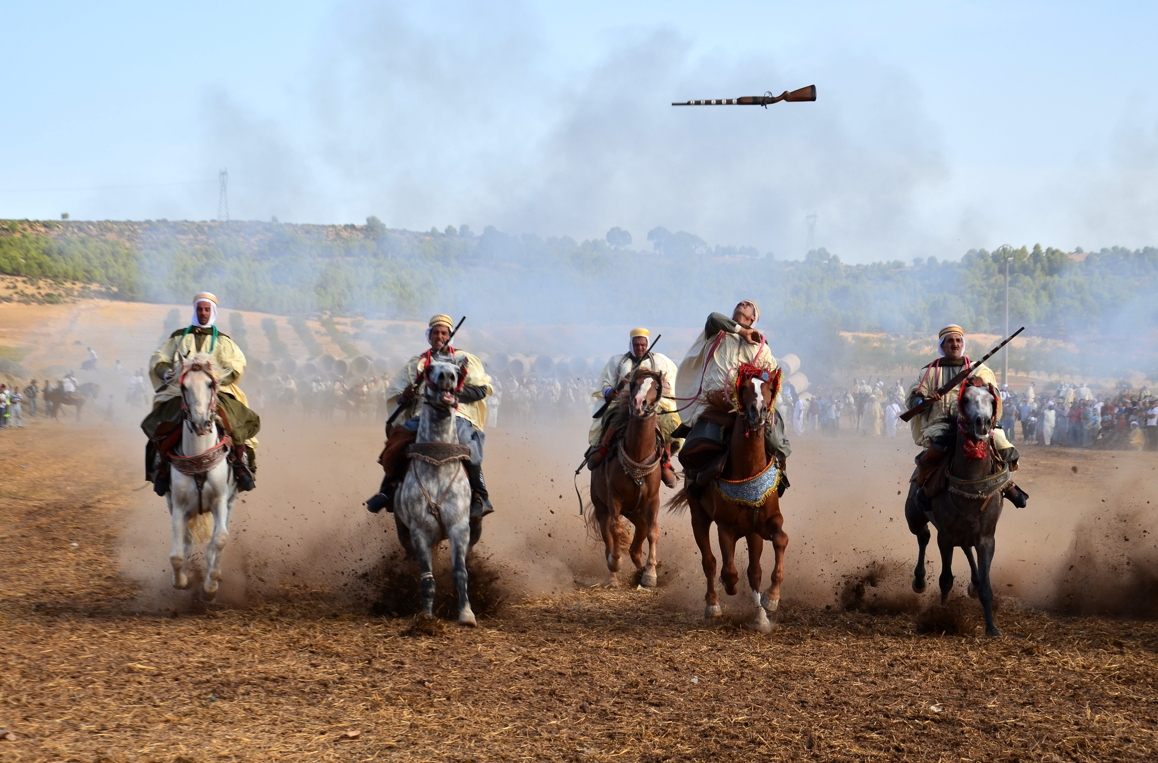 This is an image with the theme "Play" from: Algeria